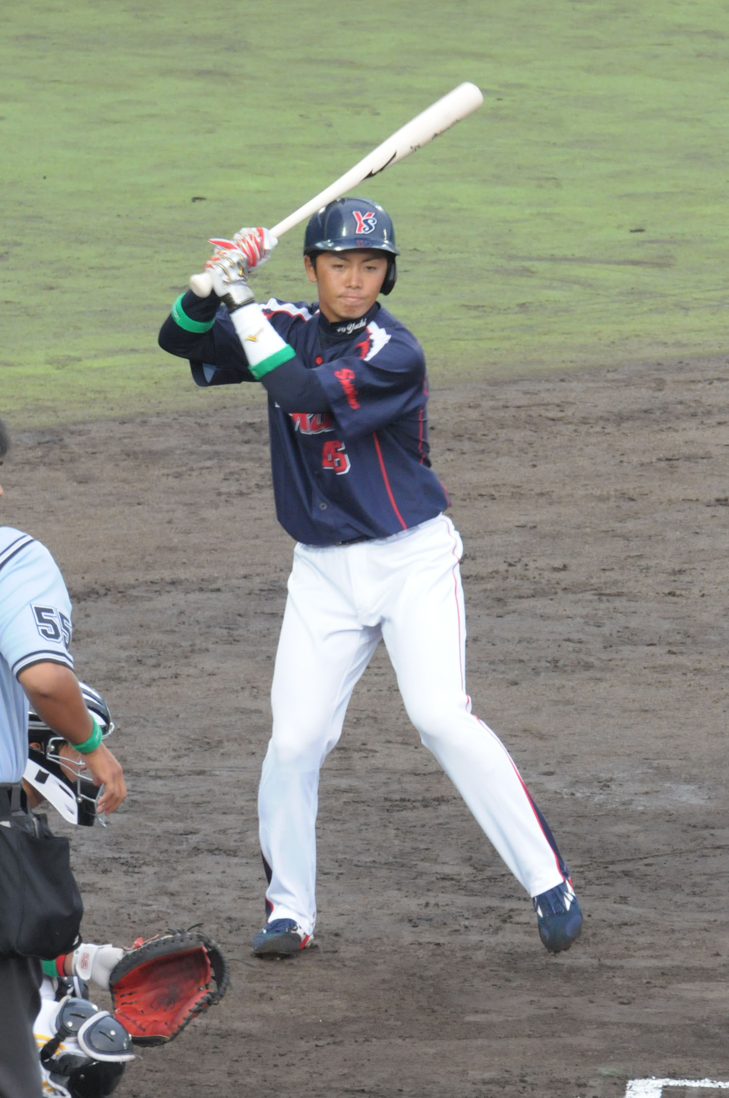 Ryota Yachi, infielder of the Tokyo Yakult Swallows, at Akita Prefectural Baseball Stadium.